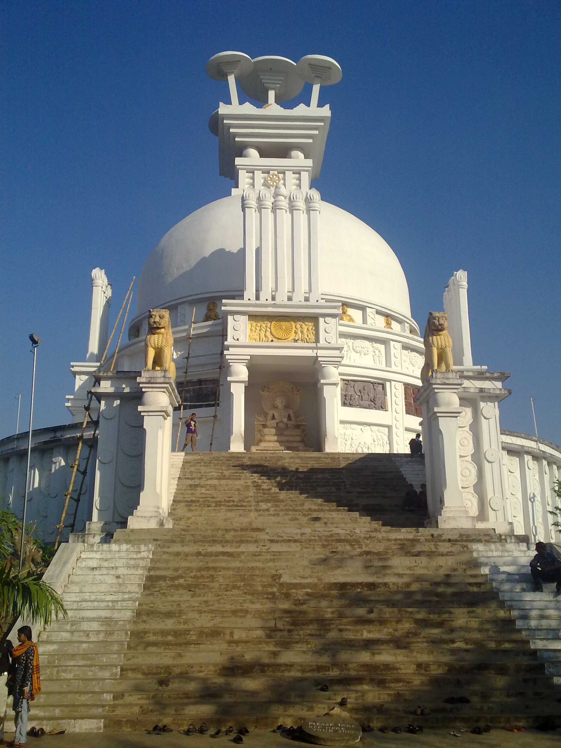 This illustration depicting A Buddha Temple in Shanti Stupa Dhauli Giri, Odhisha State, India.